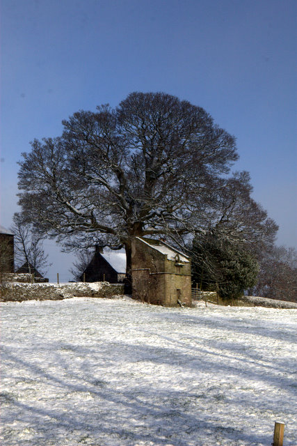 Dovecot near Mains of Rochelhill This dovecot is arguably the oldest in Scotland (Dorward, D. The Sidlaw Hills. 2004. Pinkfoot Press).